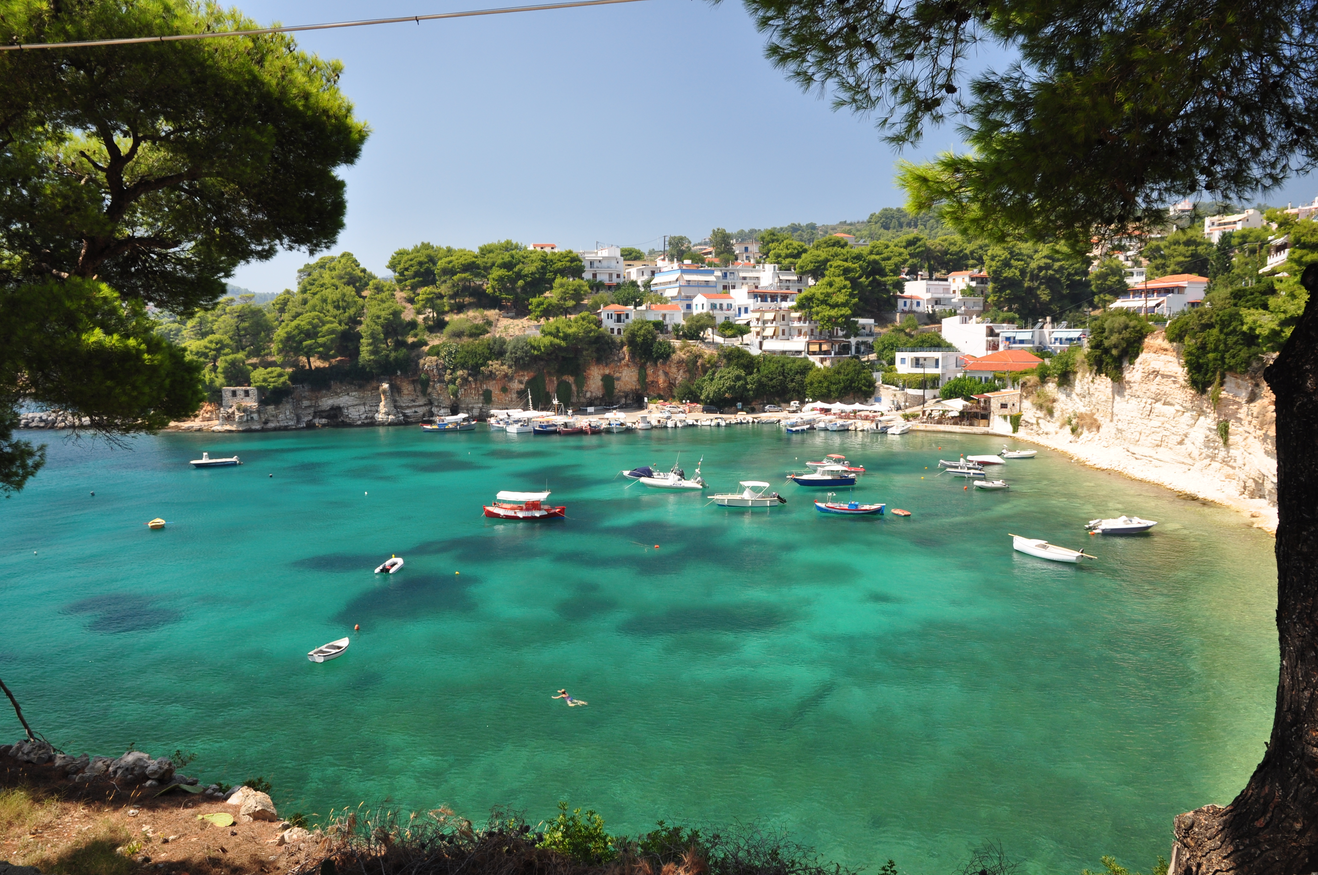 Alonissios